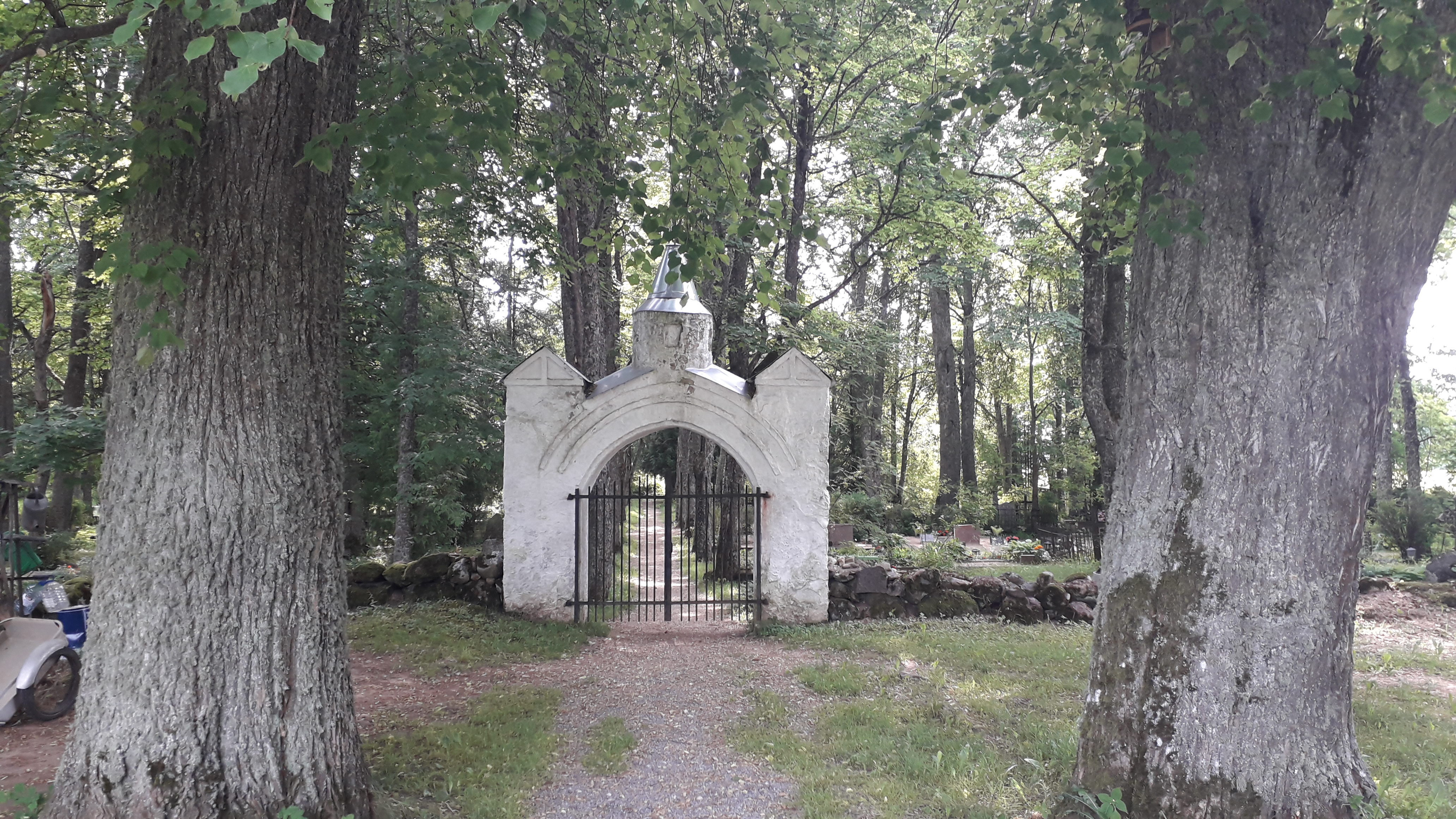 Tänassilma kalmistu värav